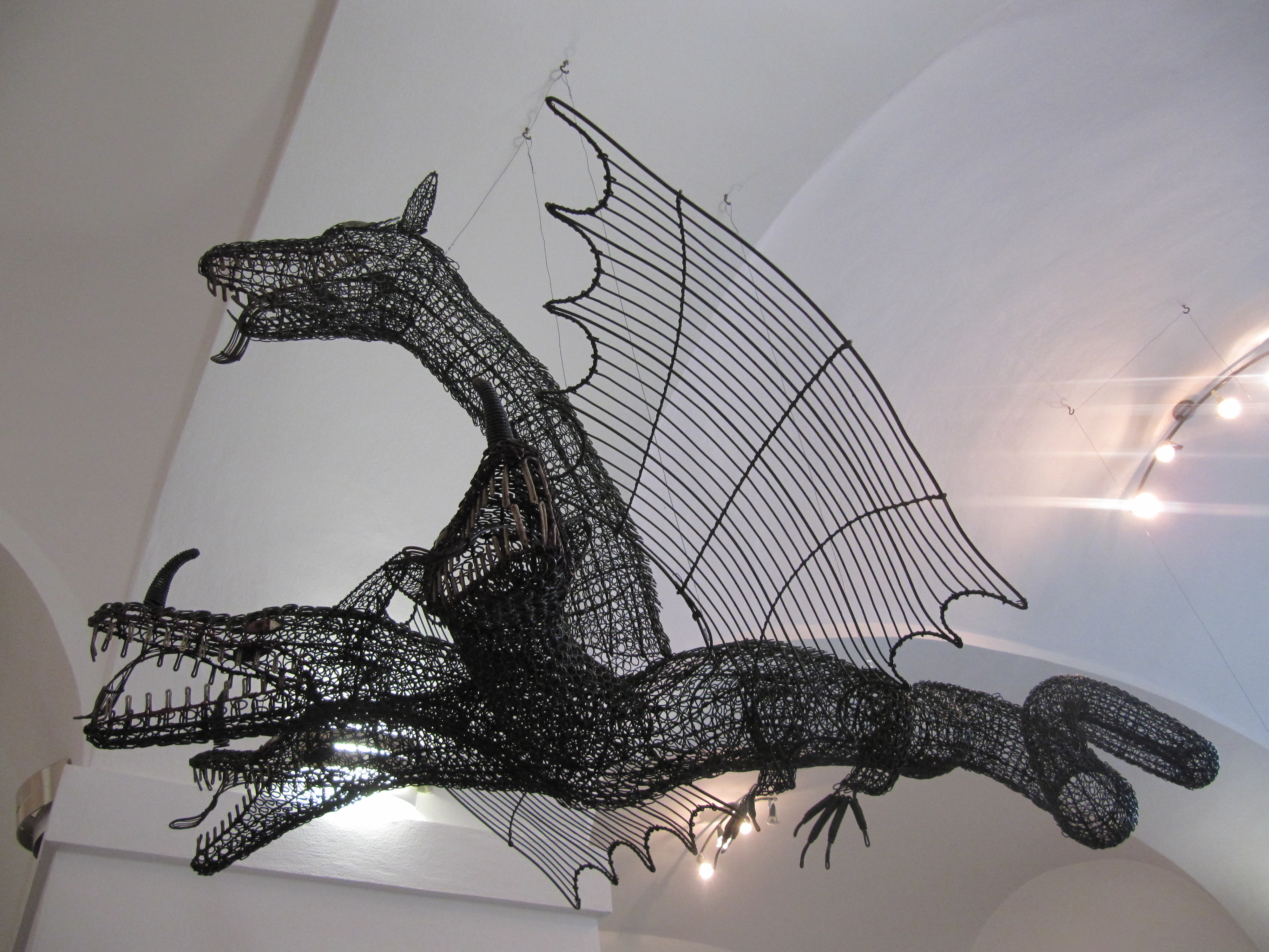 Žilina, Slovakia, Budatín Castle. Považské Museum, a permanent exhibition of tinkers' art. The only museum in the world dedicated entirely to the tinker trade.